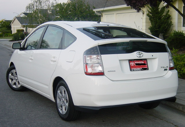 Driver side rear quarter view of 2004 Toyota Prius.